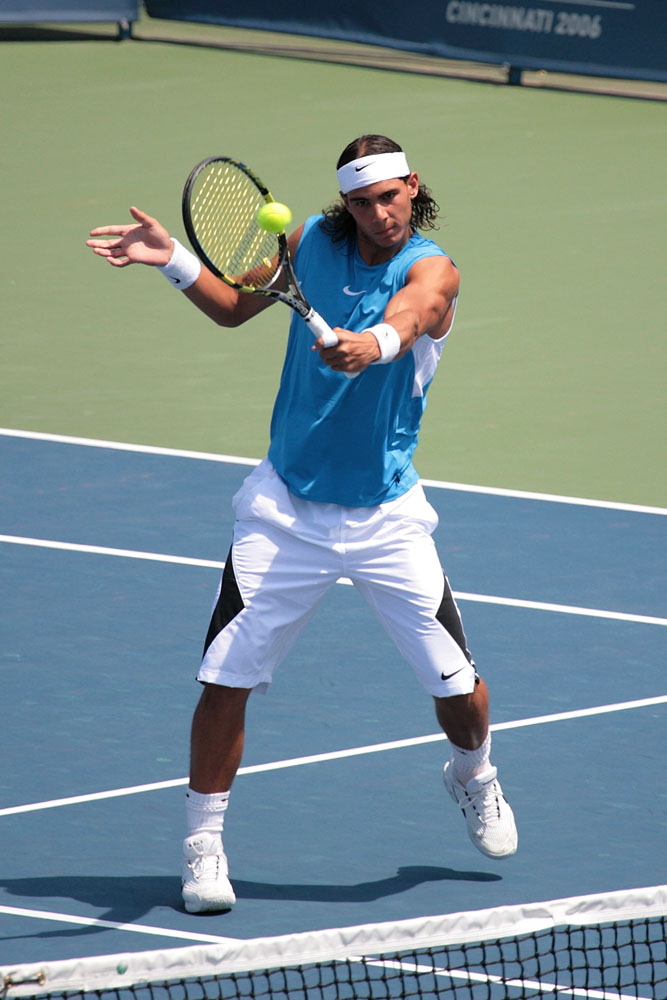 Rafael Nadal vs Tommy Haas 2006 Western & Southern Financial Group Masters Cincinnati, Ohio